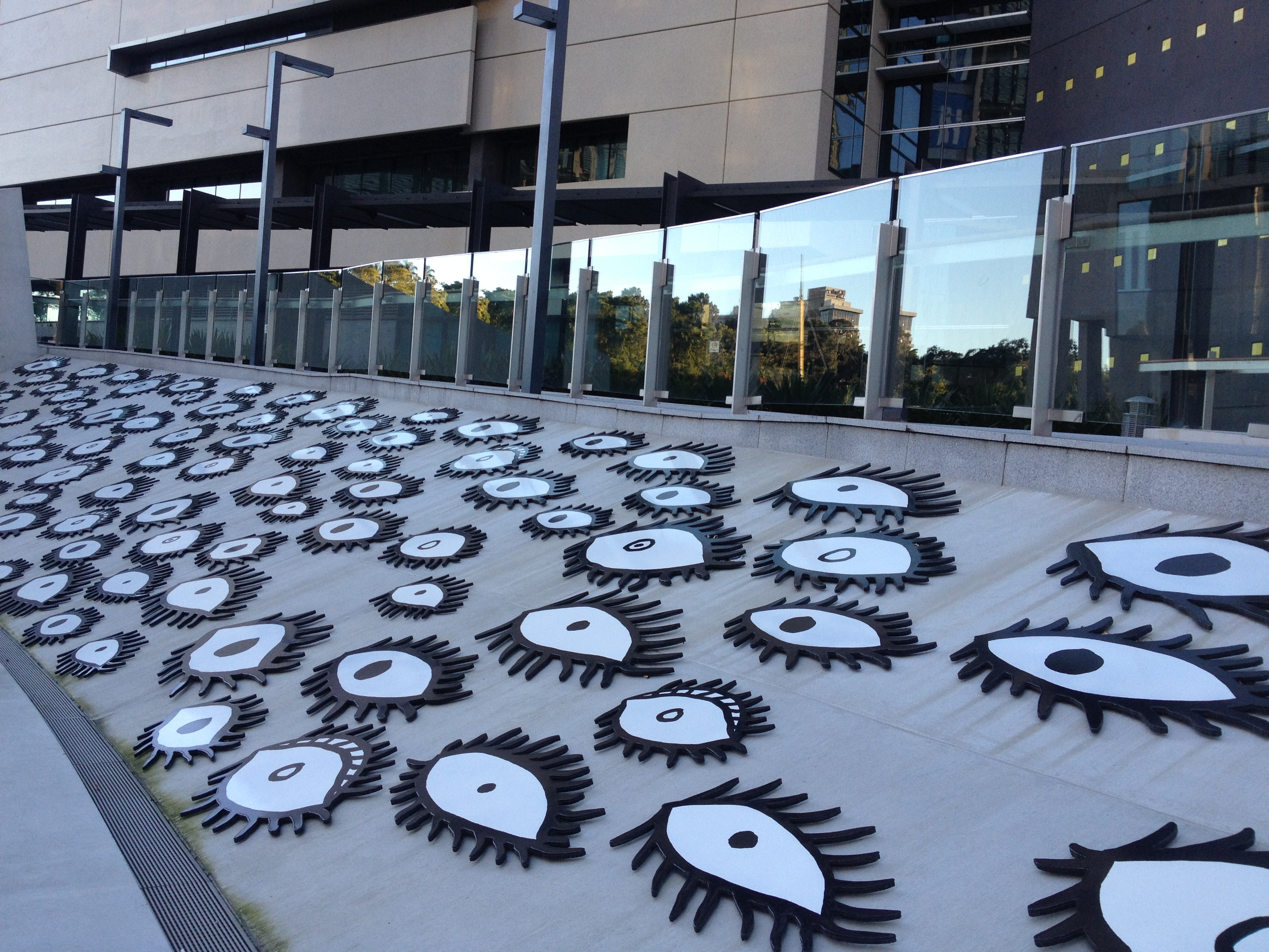 Eyes Are Singing Out by Yayoi Kusama (2012), George Street, Brisbane, 07.2013